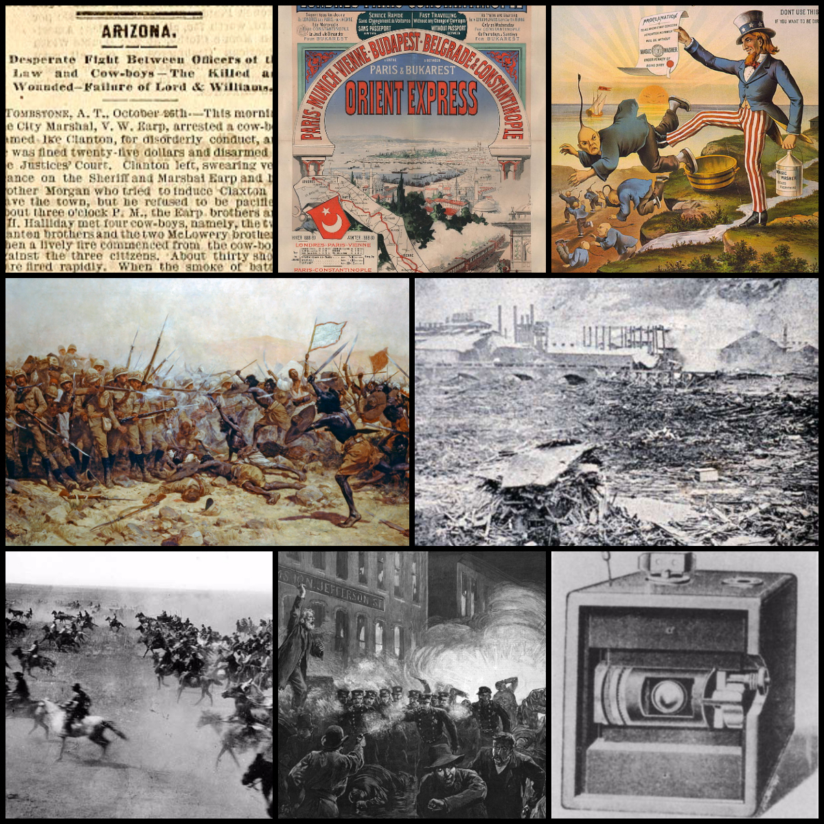 A montage of noticeable events from the 1880s.